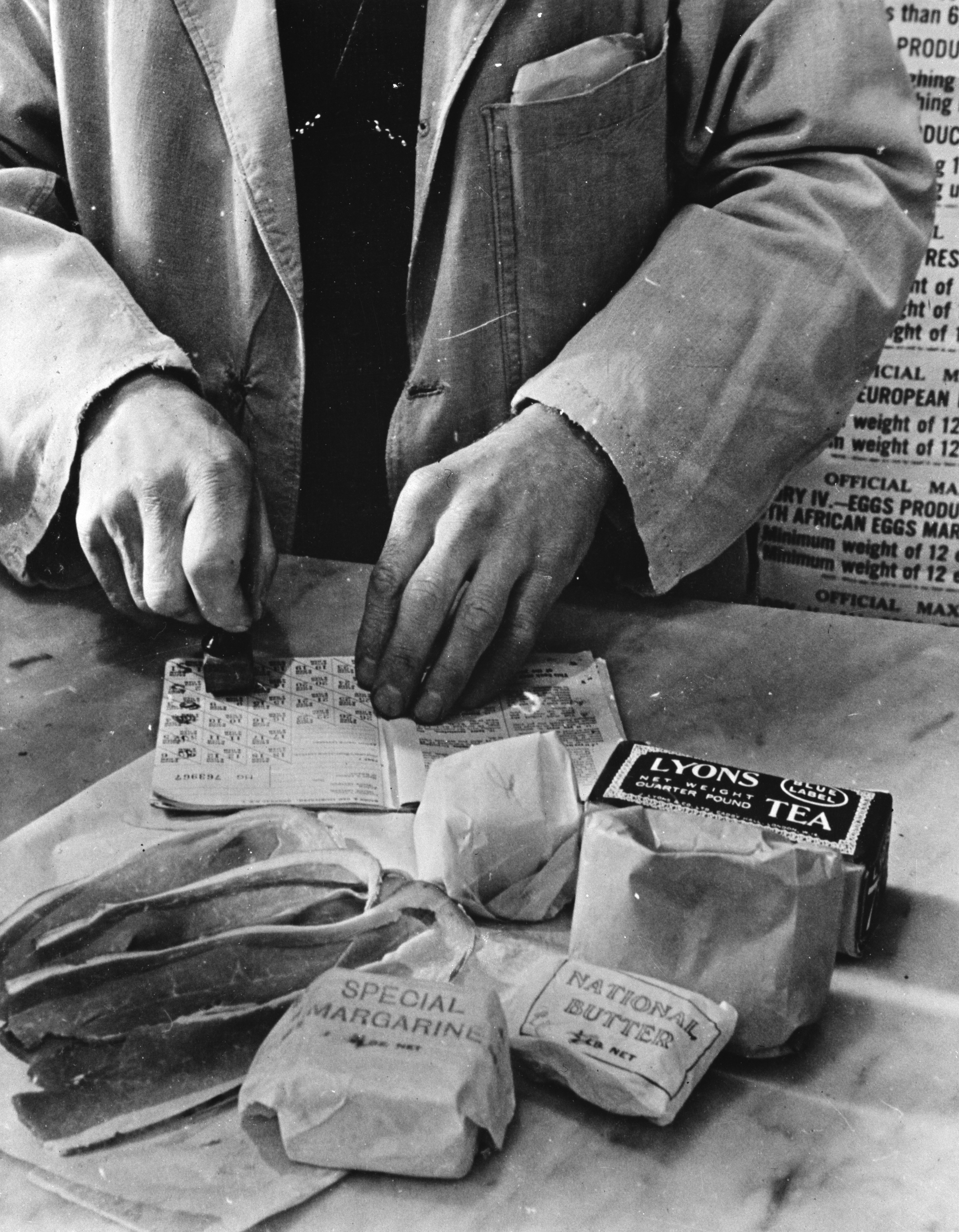 A shopkeeper cancels the coupons in a British housewife's ration book for the tea, sugar, cooking fats and bacon she is allowed for one week. Most foods in Britain are rationed and some brand names are given the designation "National".